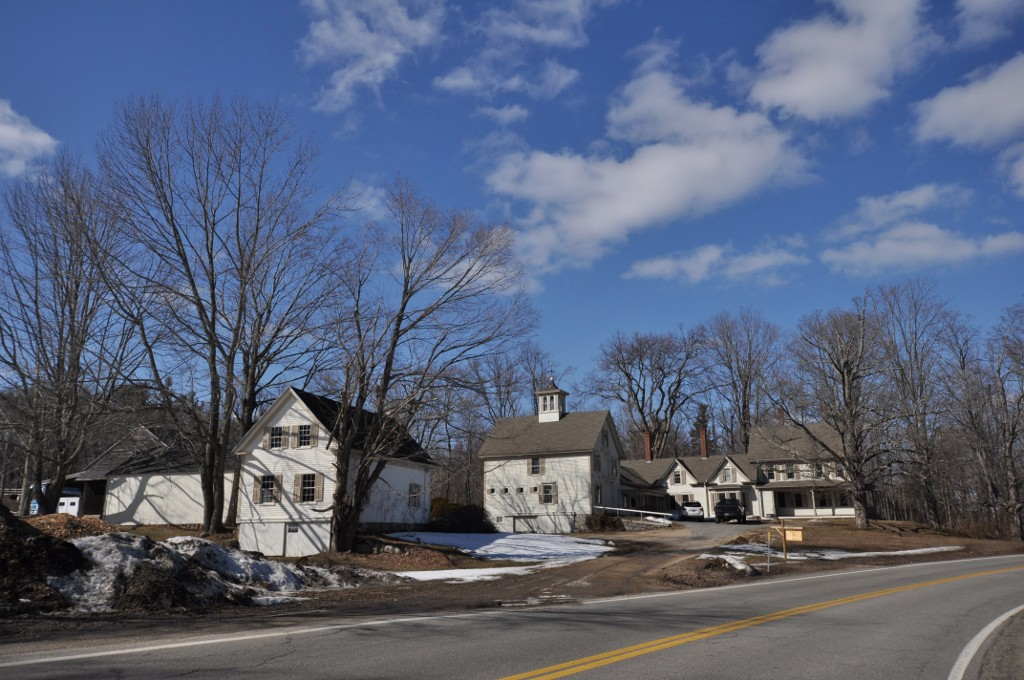 Elm Farm, Danville, New Hampshire. An example of New England connected farm buildings.